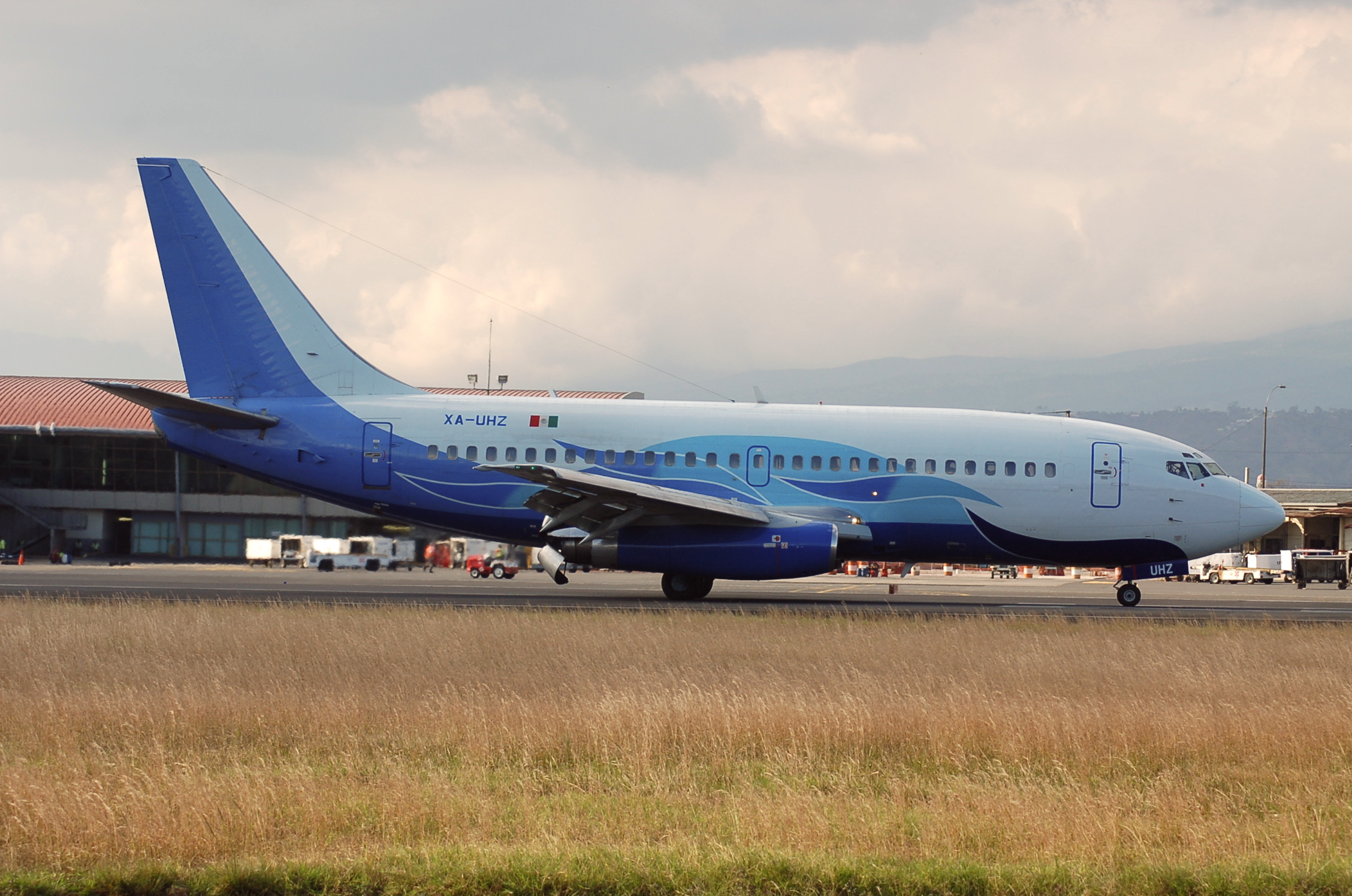 Boeing 737/2 of Avolar at San Jose-Juan Santamaria,Costa Rica ,06/03/11.